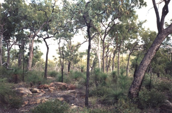 Photo from on Ngarrabullgan plateau taken in 1991